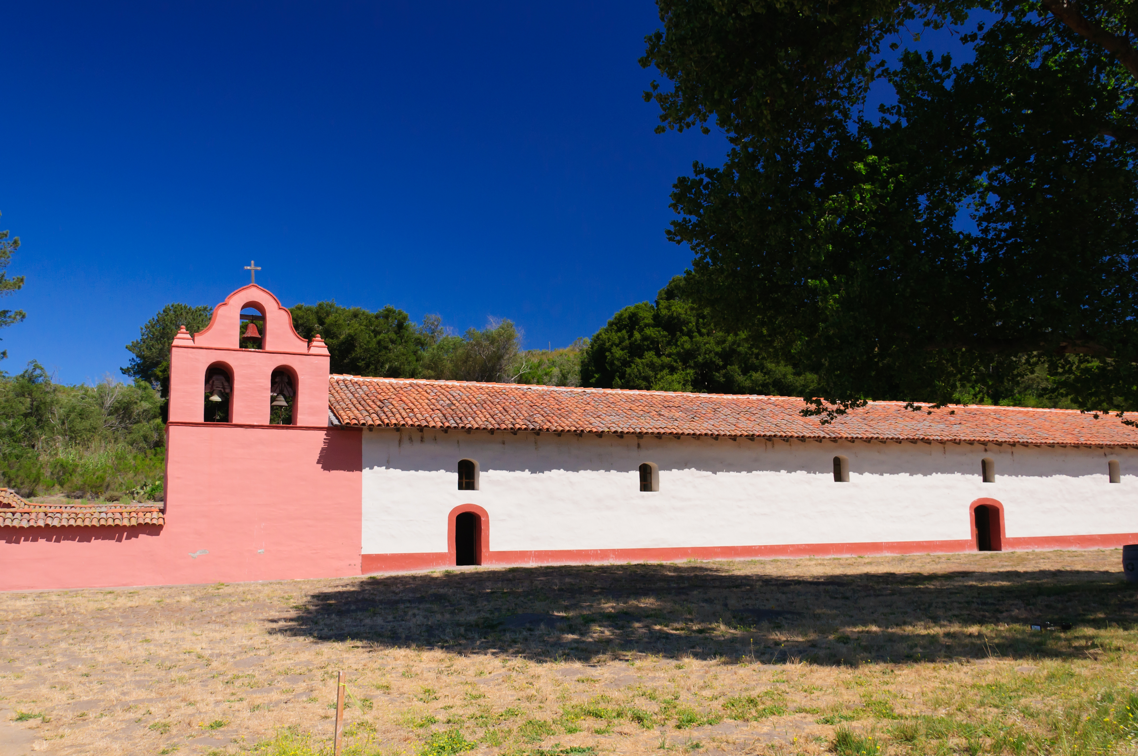 Mission de la Purisima Concepcion de Maria Santisima Site